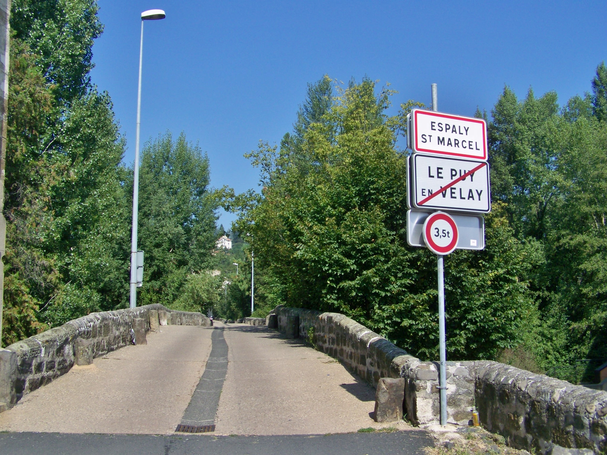 Entrance sign to the French commune of Espaly Saint-Marcel when leaving Le Puy-en-Velay in Haute-Loire.